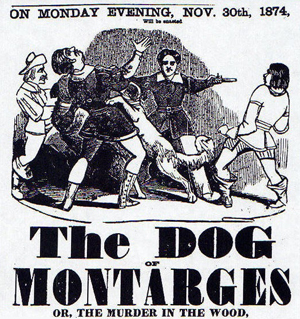 Theatre poster: Dog of Montargis (english version of Pixérécourt's Le Chien de Montargis)